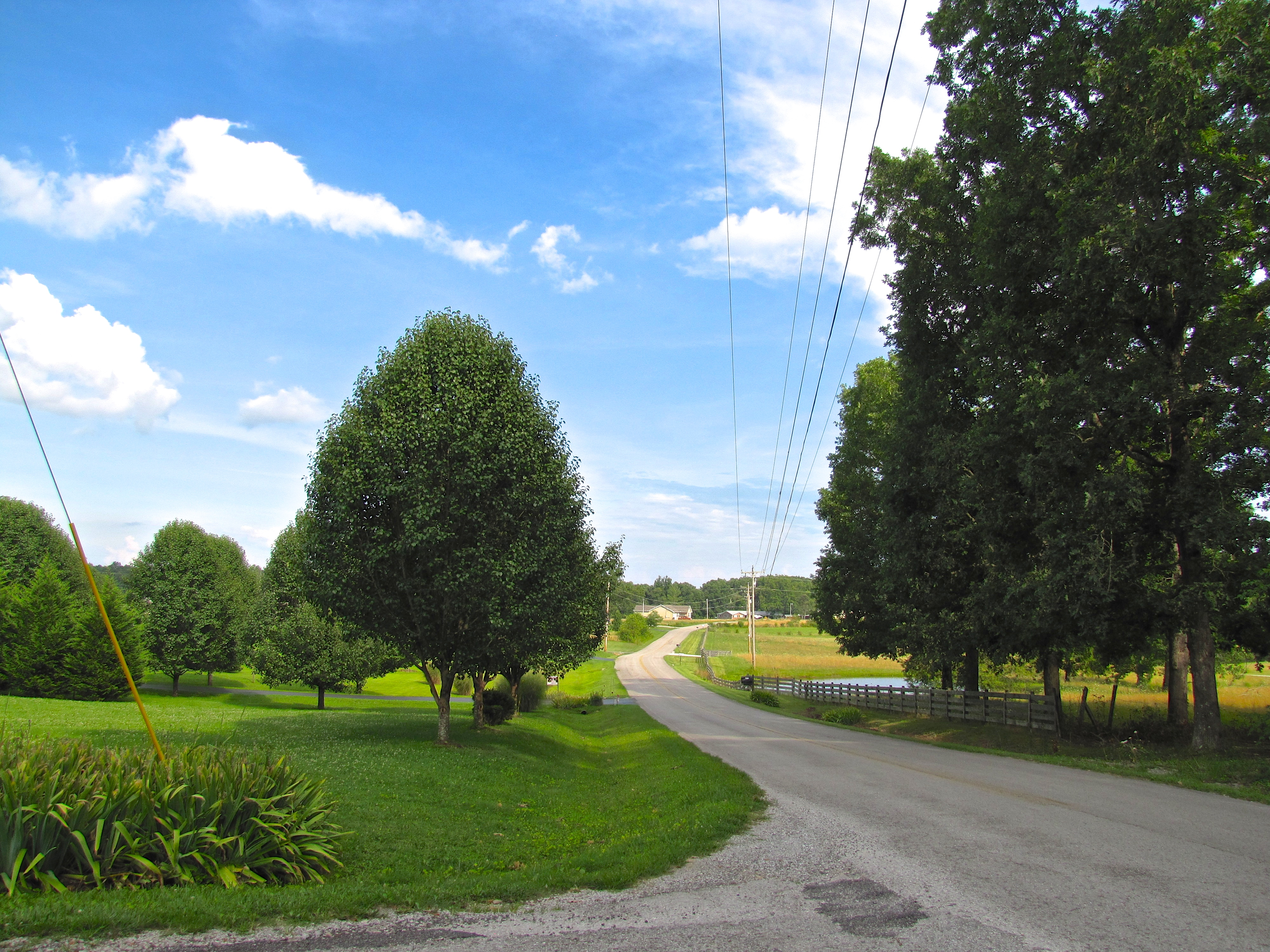 Bowman Loop Road in the Bowman area of northern Cumberland County, Tennessee, United States.